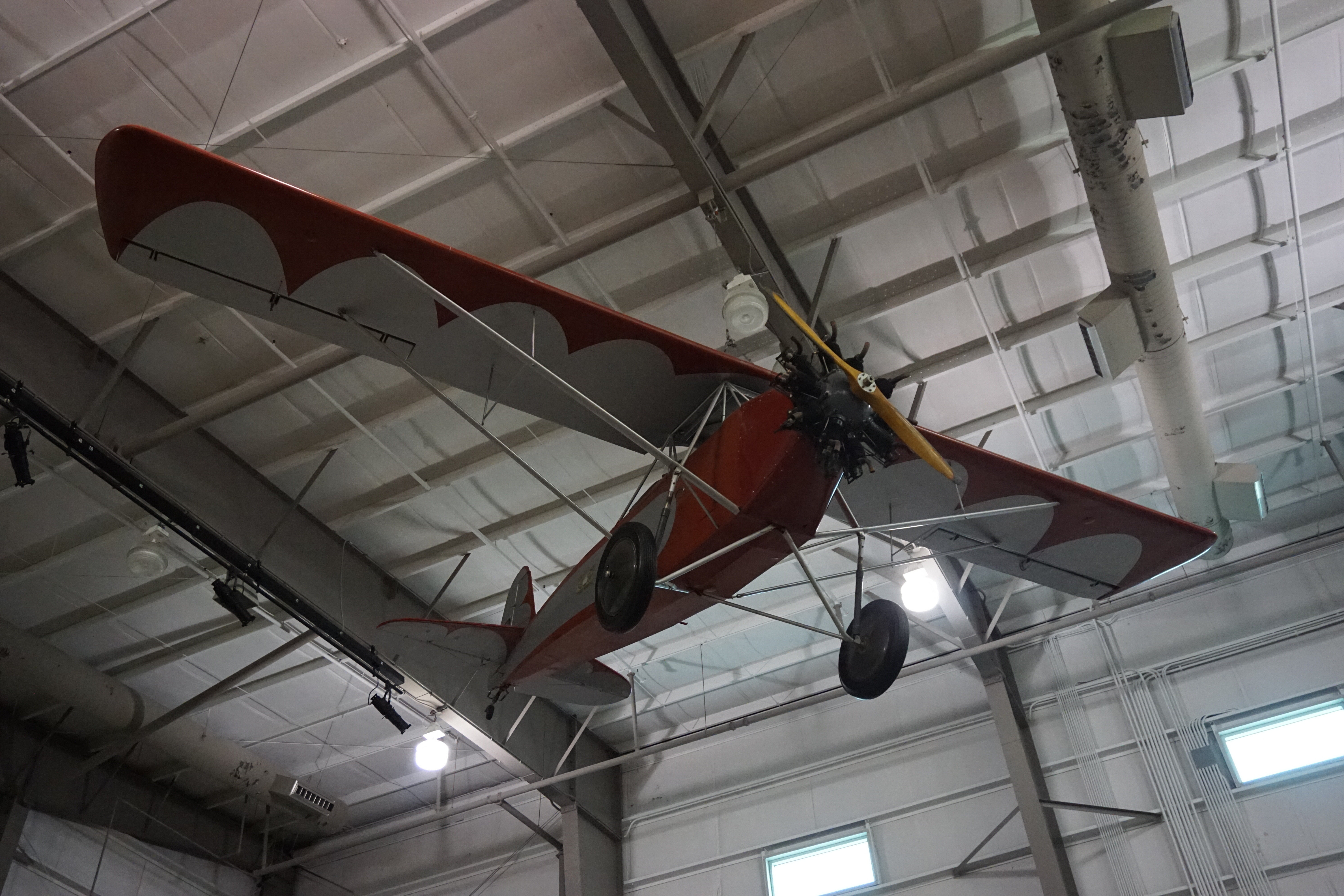 A Williams Texas-Temple Sportsman on display at the Frontiers of Flight Museum at Dallas Love Field in Dallas, Texas (United States).